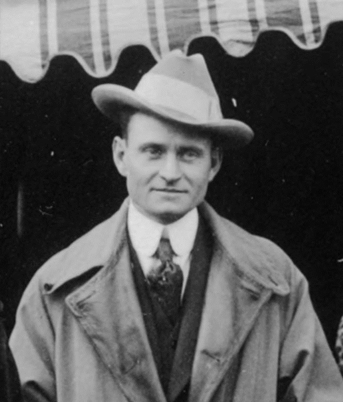 David Wood Townsend in 1919 when he worked for Art-O-Graf Film Company.